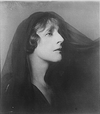 Title Portrait photograph of Margaret Anglin as Electra Contributor Names Genthe, Arnold, 1869-1942, photographer Created / Published between 1910 and 1942; from a negative taken between 1910 and 1925. Subject Headings - Anglin, Margaret,--1876-1958--Performances. Format Headings Lantern slides. Portrait photographs. Notes - Title devised. - Purchase; Genthe Estate; 1942 or 1943. - ID: LC-1303-C-002 (related image); between 1910 and 1925 Medium 1 slide : lantern ; 4 x 5 in. or smaller. Call Number/Physical Location LC-G4085- 0383 [P&P]